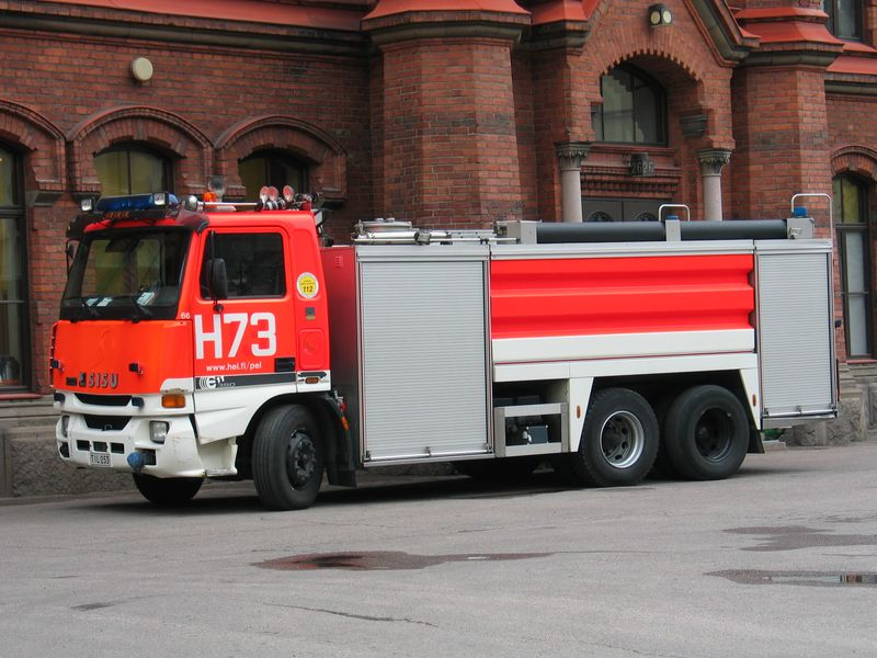 Water Tender H73 of Helsinki Rescue Department.